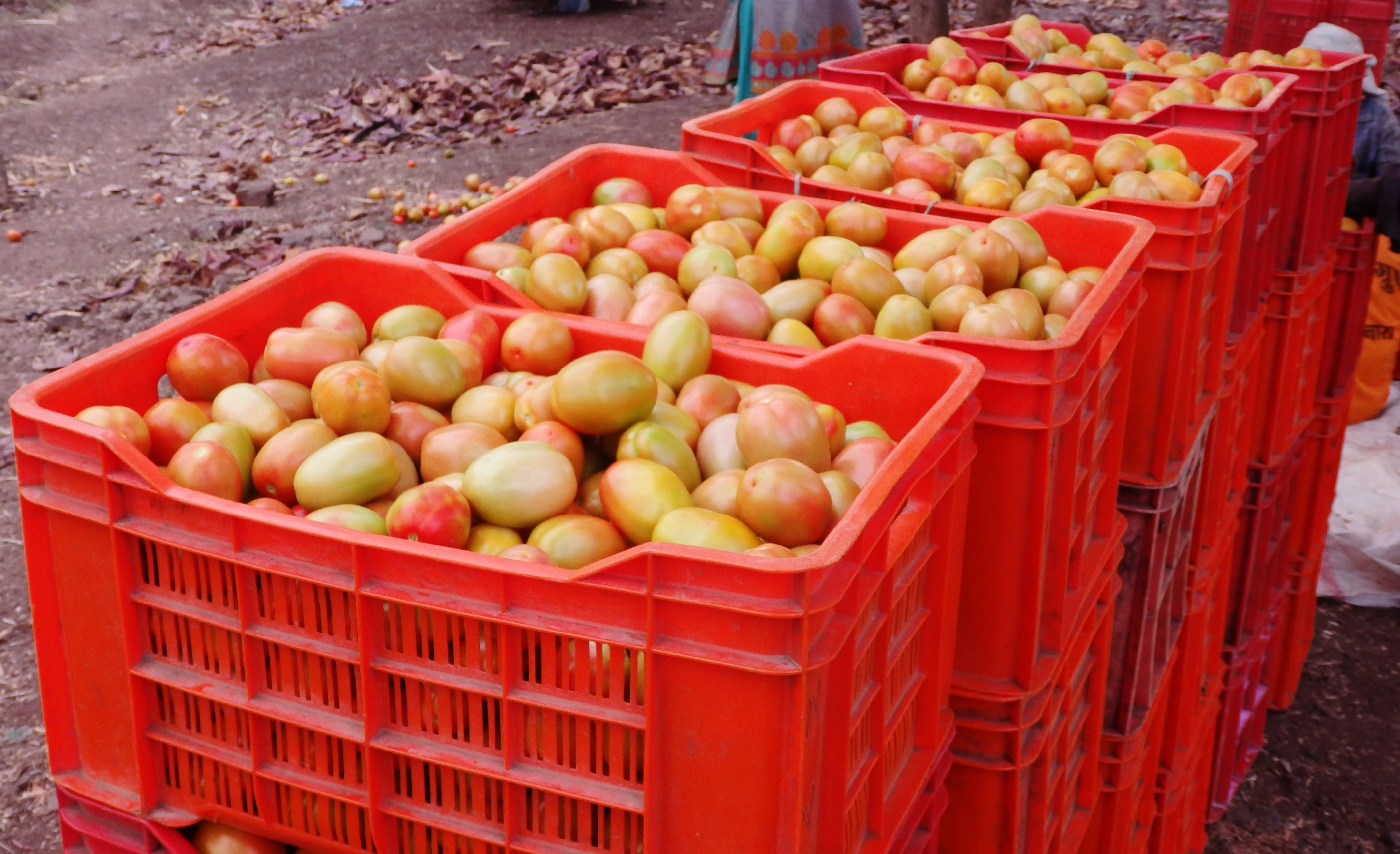 Tomato crates ready for dispatch from an Indian farm